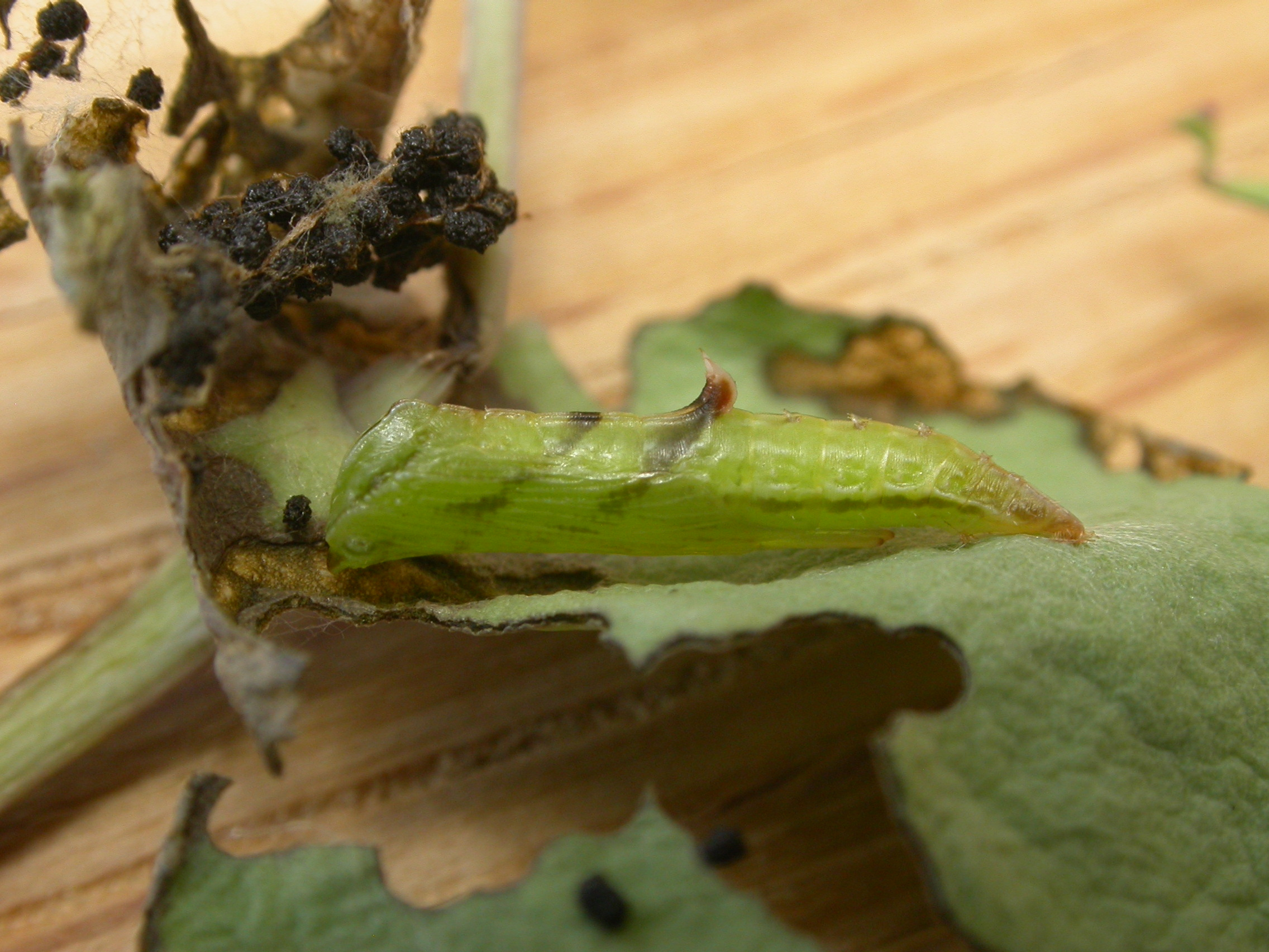 Larva Sinpunctiptilia emissalis